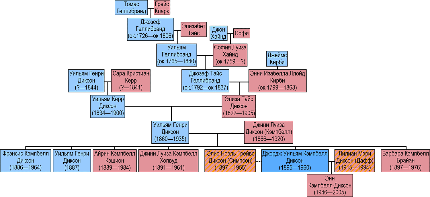 The family tree of the Australian-British journalist and dramatist George William Campbell Dixon (1895-1960). (in Russian)